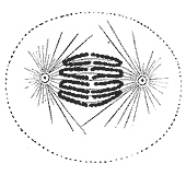 Diagram showing the changes which occur in the centrosomes and nucleus of a cell in the process of mitotic division. (Schäfer.) I to III, prophase; IV, metaphase; V and VI, anaphase; VII and VIII, telophase. This is step V cut out from Image:Gray2.png. The original copyright is duplicated below.